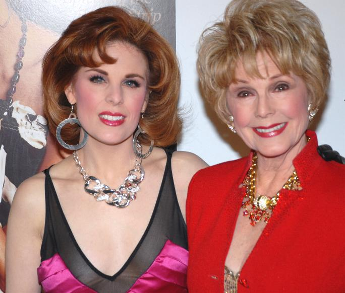 Actress Kat Kramer (left) and her mother Karen Sharpe-Kramer (Stanley Kramer's widow) at the Hollywood Life Magazine’s 7th Annual Breakthrough Awards